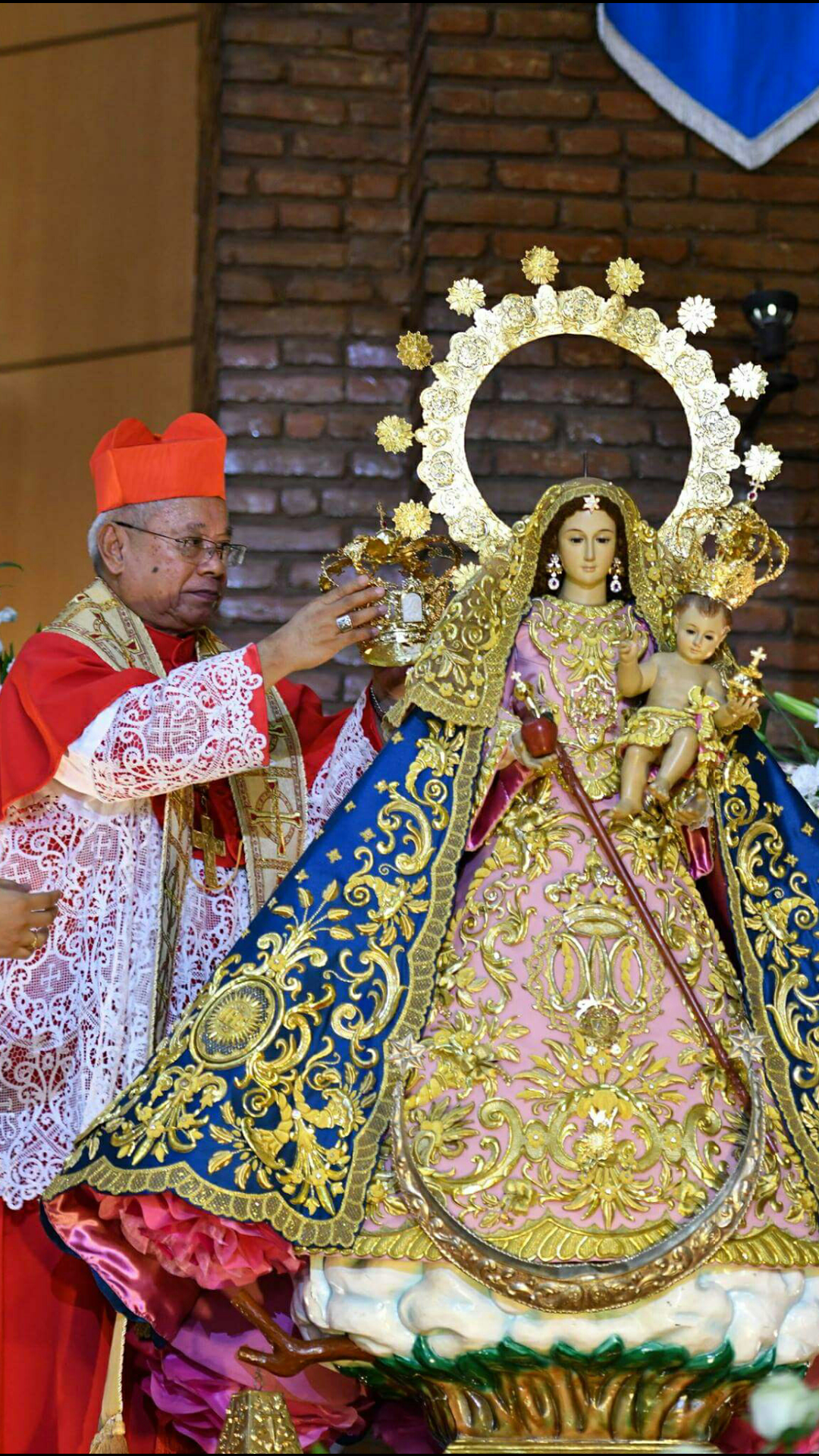 The 300 year old image of Our Lady of Aranzazu being Canonically crowned by a papal legate his Eminence Orlando Cardinal Quevedo